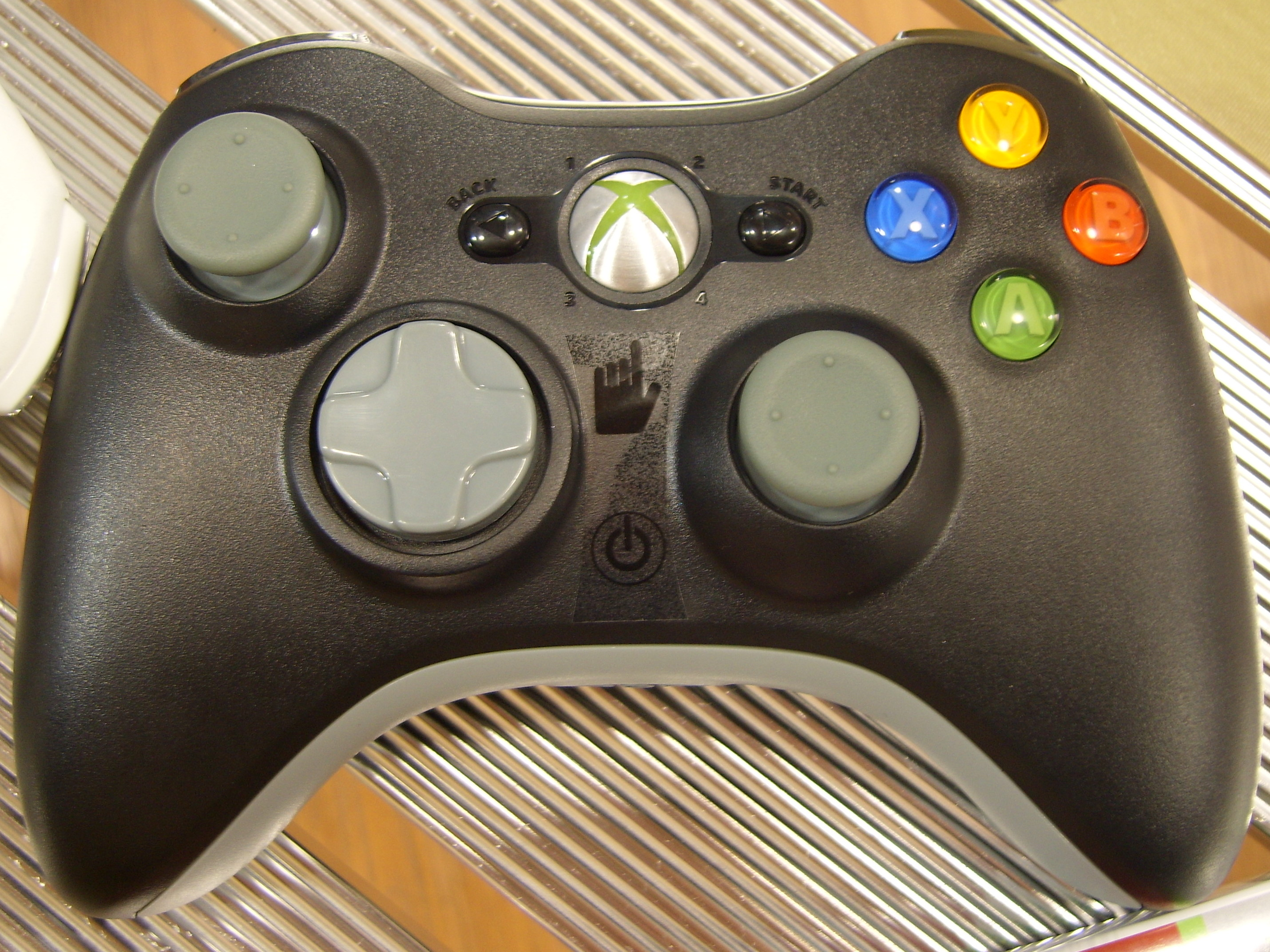 "PGR4" pre-launch in Taiwan: An rare Xbox 360 black gaming controller.中文（台灣）: 「PGR4台灣上市首見會」：少有的Xbox360黑色控制器，只有旗艦版才有。